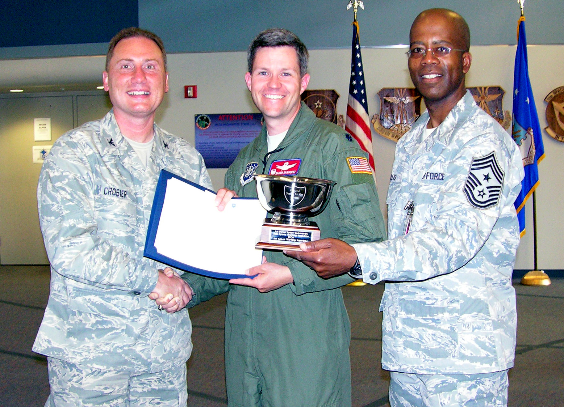 SCHRIEVER AIR FORCE BASE, Colo. – Col. Clint Crosier, 460th Space Wing commander, Lt. Col. Shawn Fairhurst, 11th Space Warning Squadron commander, and Chief Master Sgt. Robert Ellis, 460th Space Wing command chief, pose with the Gen. Seth J. McKee trophy June 1. The 11th SWS took home the trophy after being named the space warning squadron in Air Force Space Command for the first time since the unit’s founding in 1994 and reactivation in 2007. (U.S. Air Force photo)